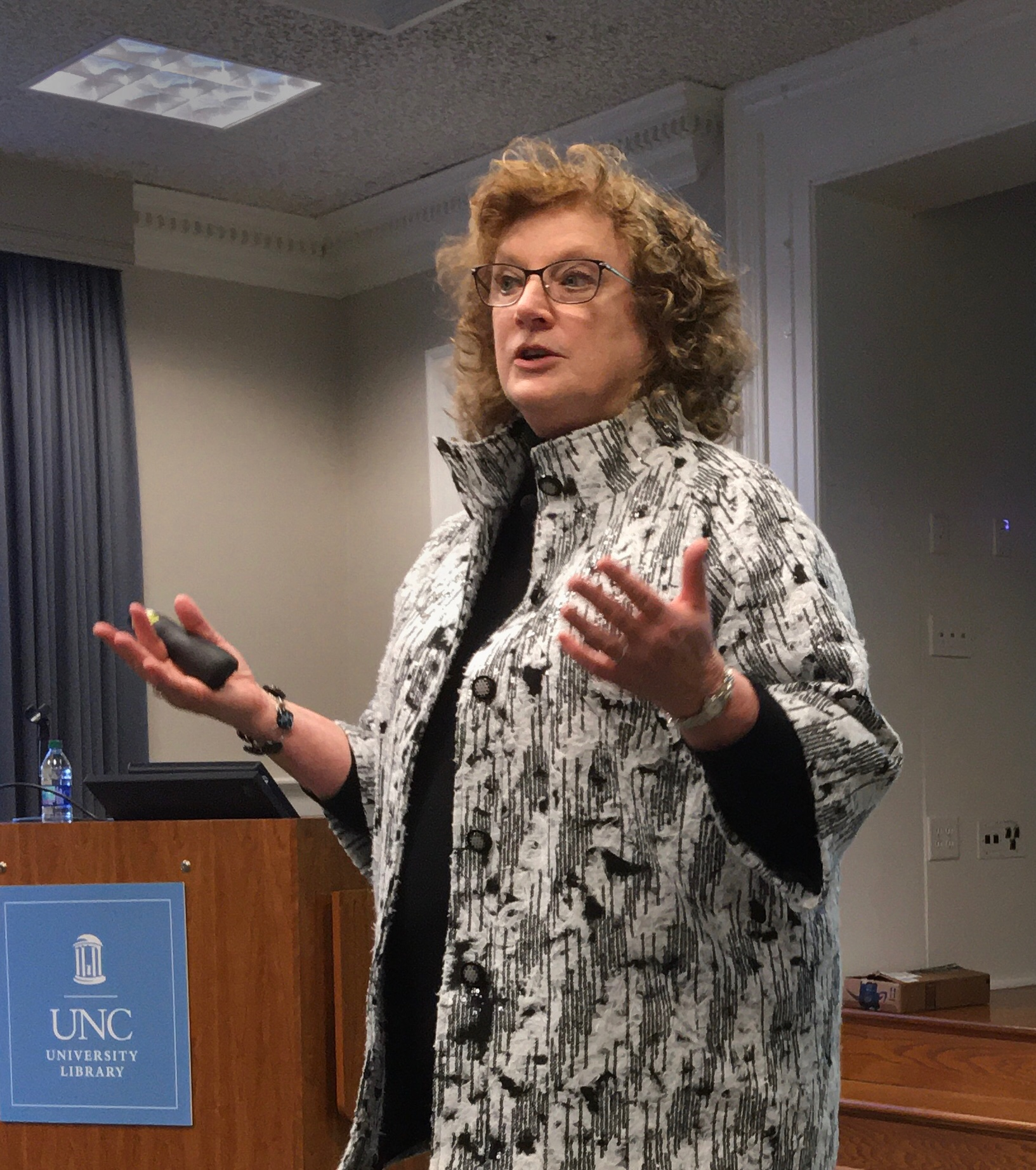 Photo of Penny Abernathy in February 2020.